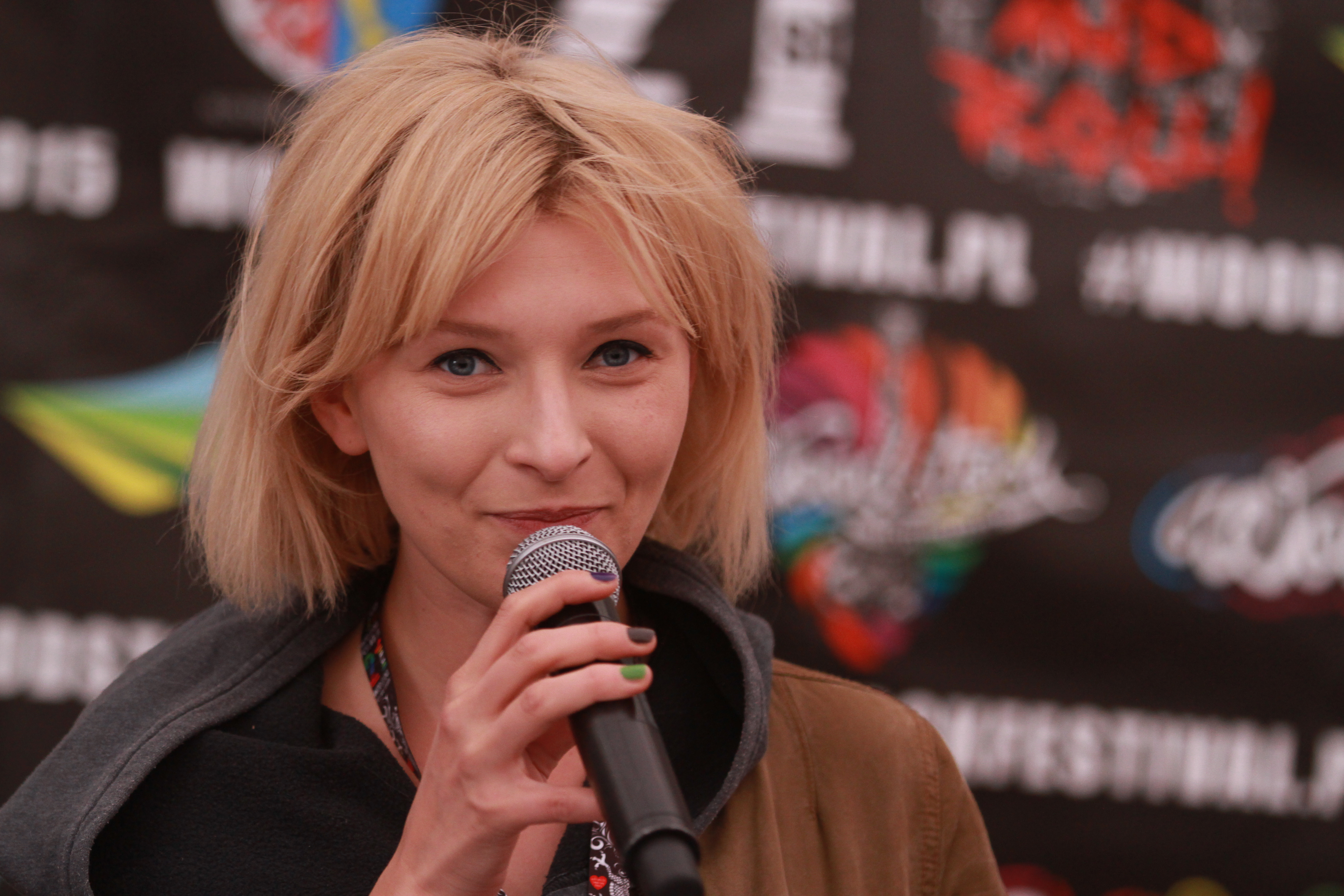 Przystanek Woodstock in 2015.